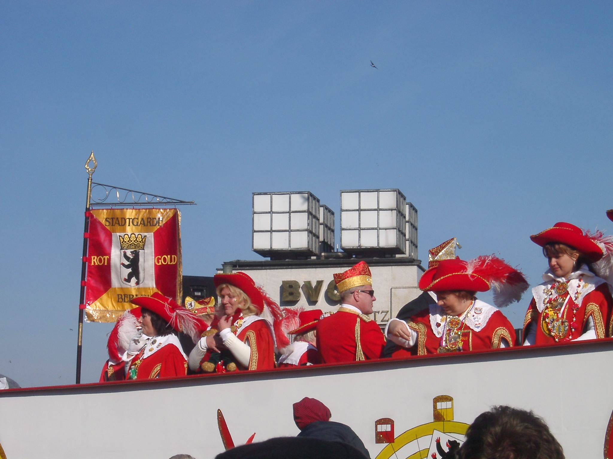 Berlin carneval before BVG building